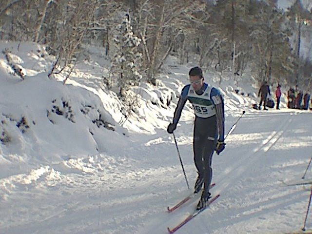 Thomas Alsgaard at NM in 2003